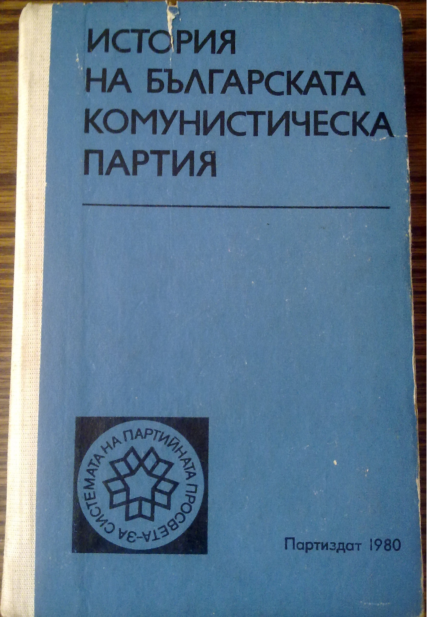 The cover of a book on the history of the Bulgarian Communist Party issued by the BCP History Institute.